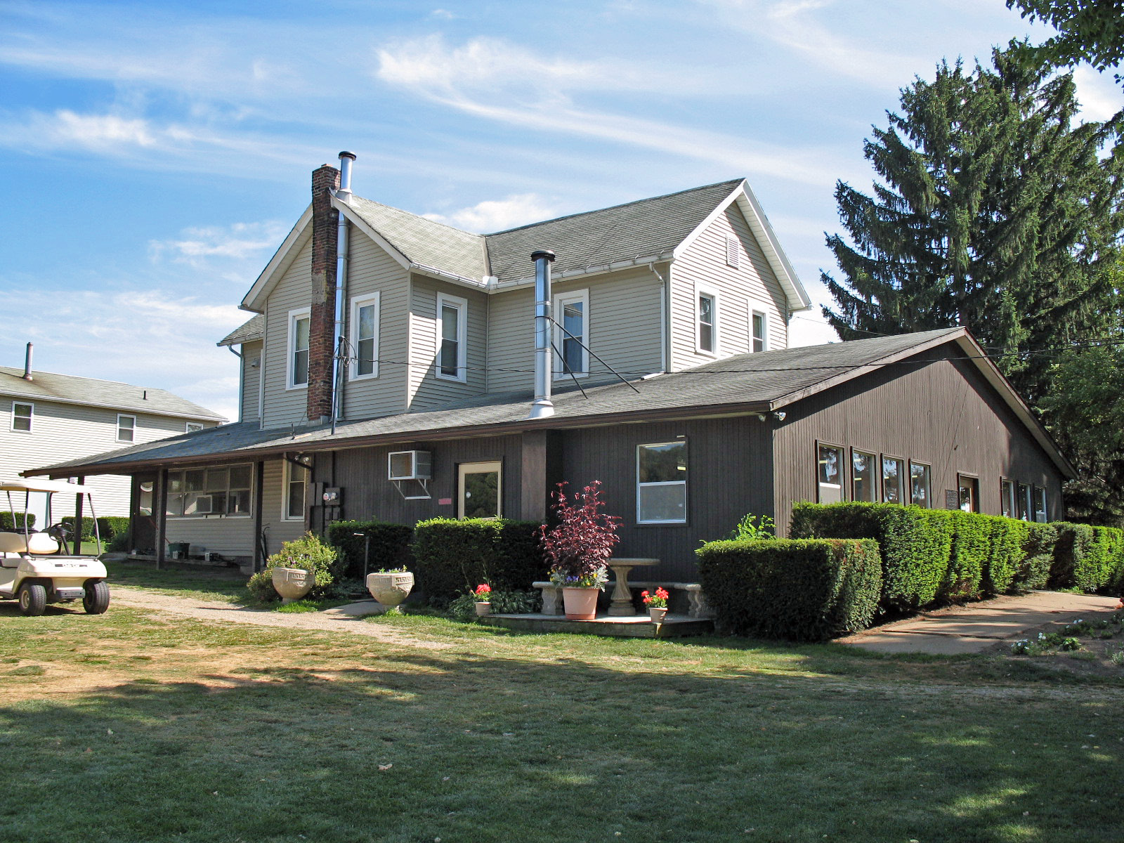 Registered Historic Places in Stark County, Ohio. Clearview Golf Club, 8410 Lincoln St, East Canton, Ohio, USA. Photographed 2008-08-25 from northwest of the clubhouse